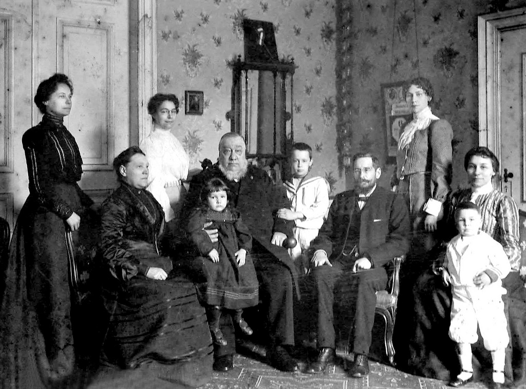 Paul Kruger with members of his family at his home, Oranjelust, in Utrecht, Netherlands, in October 1902